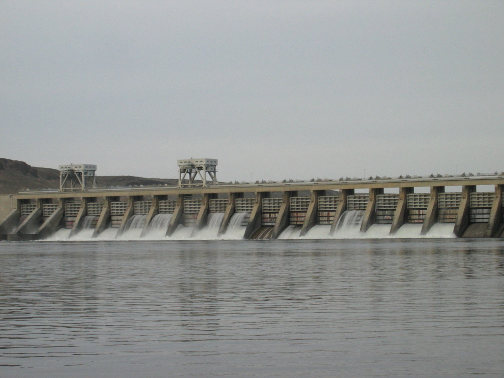 Gates of the McNary Dam opening and allowing water flow.